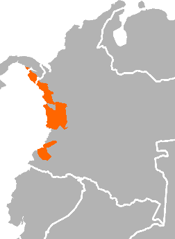 Chocó languages of Colombia and Panamá